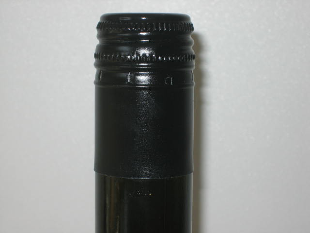 author: User:Symposiarch source: own photograph